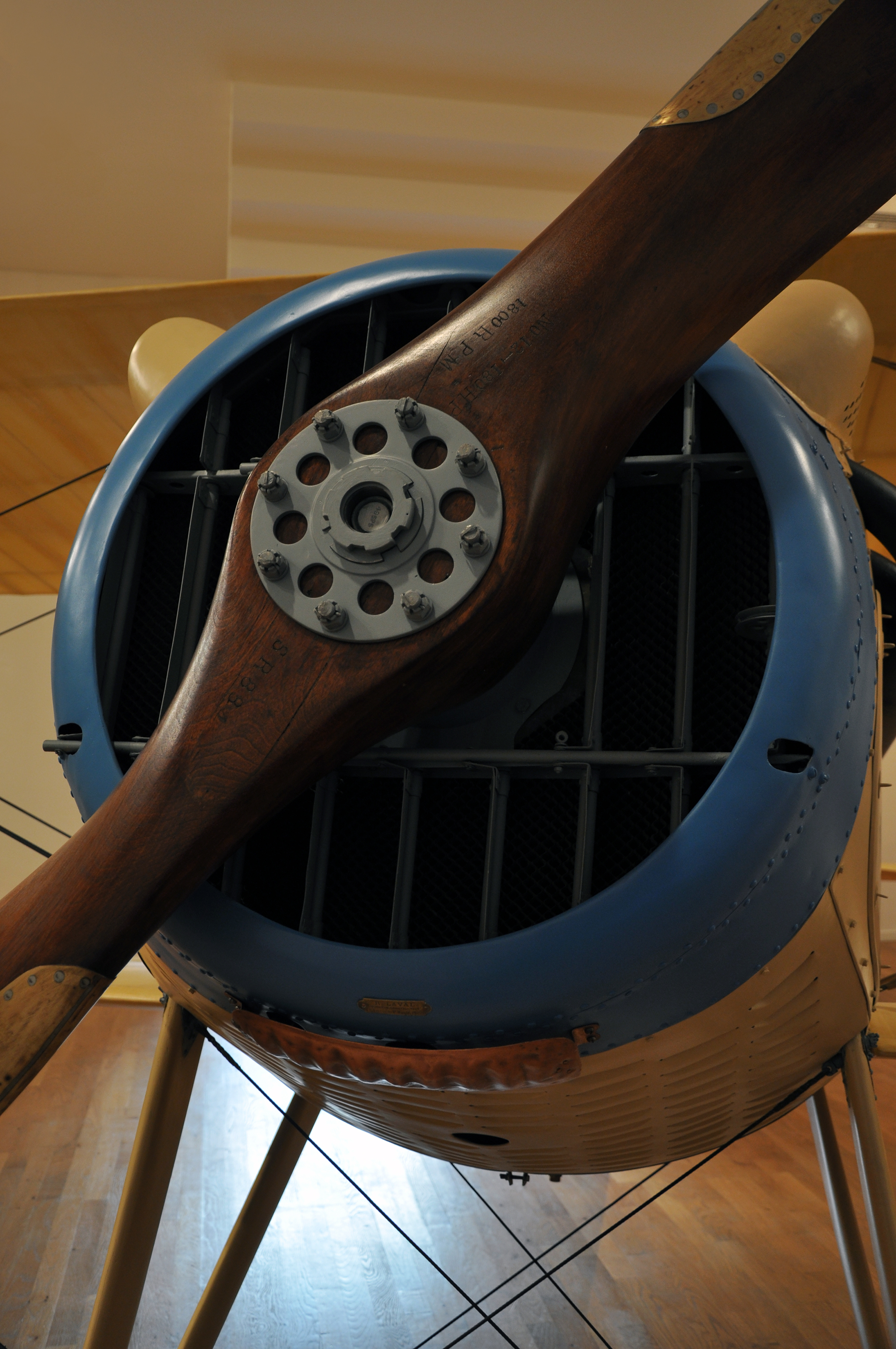 Detail of a SPAD VII in the Musée de Cambrai ( France ).